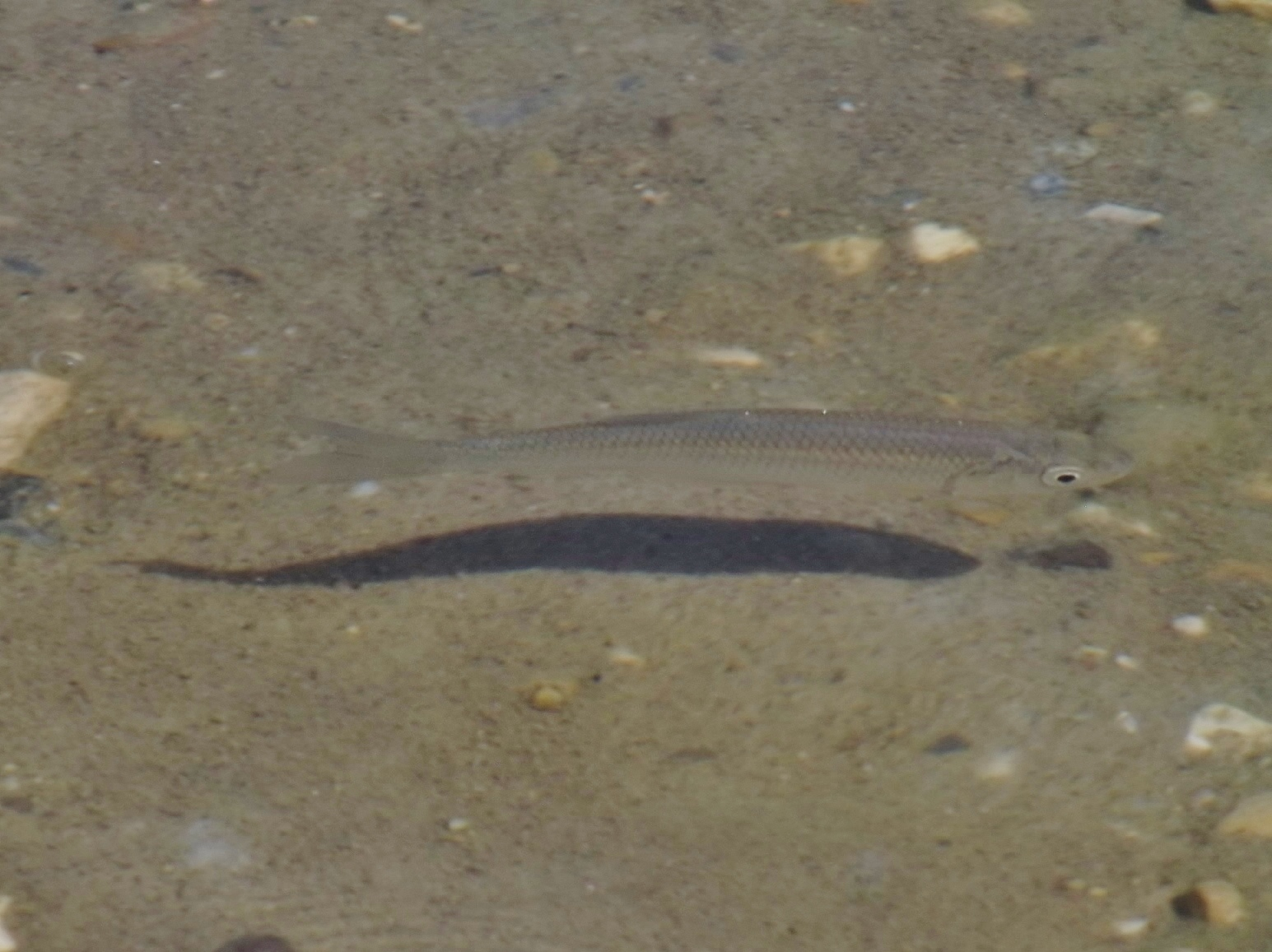 Sight of a fish close to the north-western side of the lac d'Aiguebelette lake, in Savoie, France.